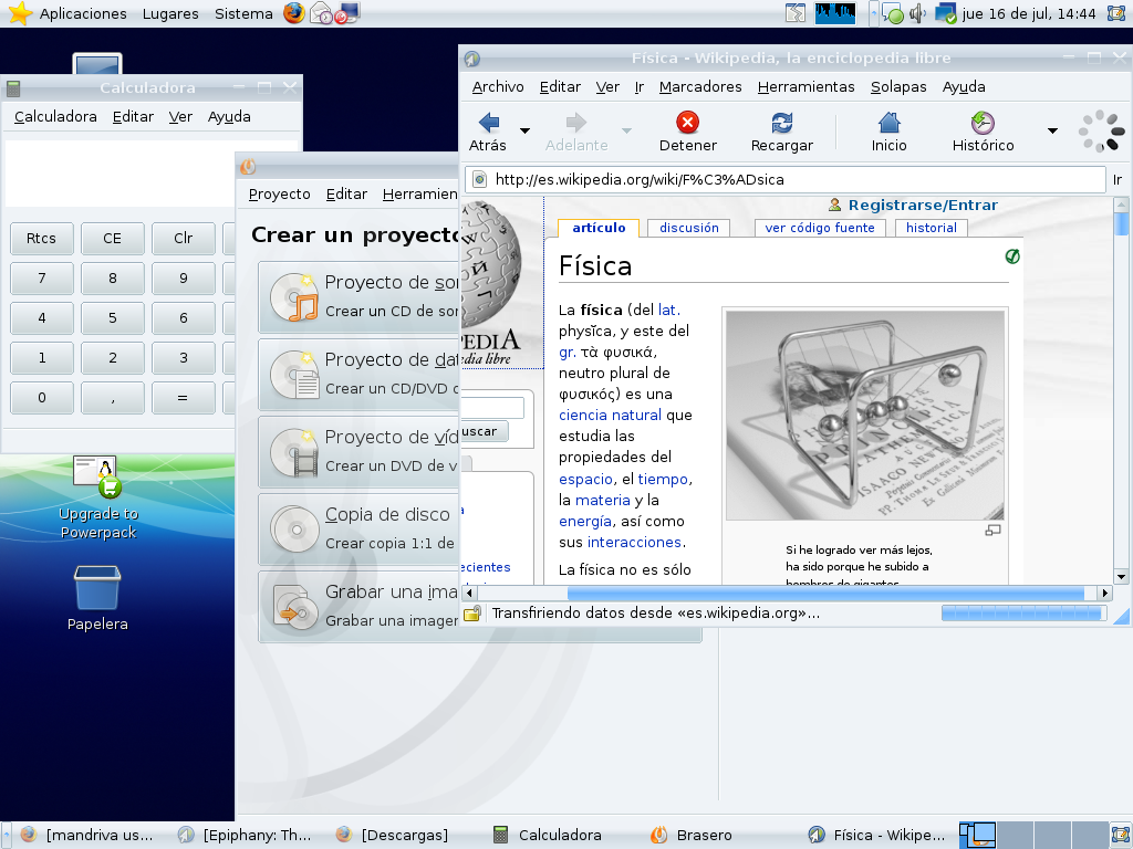 Liveusbmandriva.png